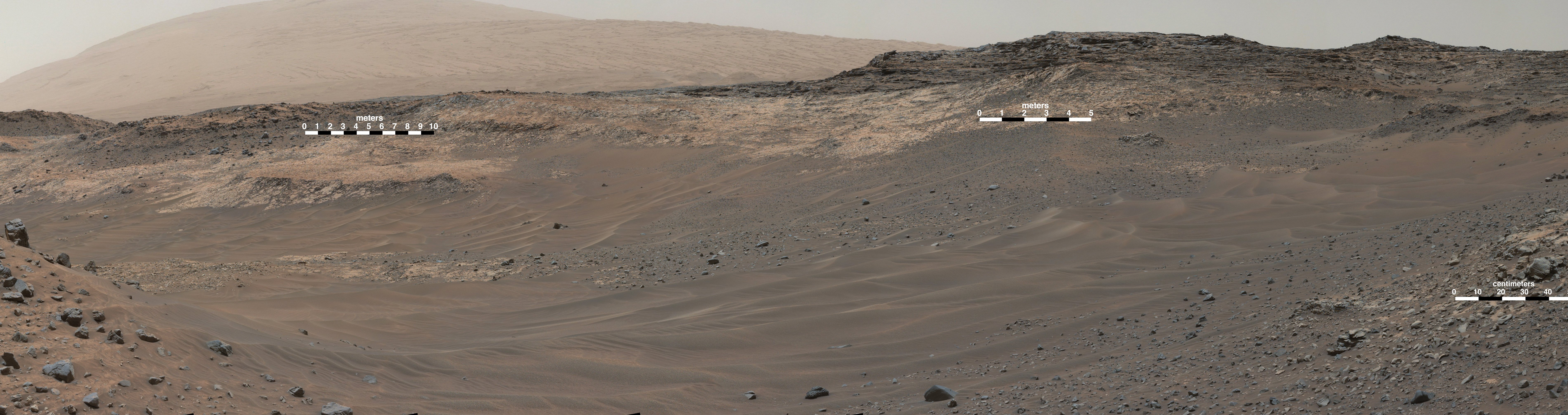 PIA19662: Unfavorable Terrain for Crossing Near 'Logan Pass' UPLOADER NOTE: Original image (7984x2383/11,643 KB) was cropped (7602x2010/2,541 KB) - via JASC Paint Shop Pro v 6.02. This view southeastward from Curiosity's Mast Camera (Mastcam) shows terrain judged difficult for traversing between the rover and an outcrop in the middle distance where a pale rock unit meets a darker rock unit above it. The Mastcam's left-eye camera captured the component images on May 10, 2015, during the 981st Martian day, or sol, of Curiosity's work on Mars. This observation helped the rover team evaluate routes for driving to that geological contact area where the two rock units meet. The outcrop exposing the contact is in the eastern portion of the "Logan Pass" area. The windblown ripples and the steep ground where ripples are lacking are both poor terrain for the rover to cross. The team subsequently chose to approach a different site where the pale and darker rock units are in contact with each other. That alternative site is in the northern portion of the Logan Pass area, outside of this scene. This panorama spans from east, at left, to south-southwest. The color has been approximately white-balanced to resemble how the scene would appear under daytime lighting conditions on Earth. Figure 1 is version of this panorama annotated with two scale bars. The five-meter scale bar nearest the center is just below the geological contact. Five meters is about 16.4 feet. Scale bars of 10 meters (32.8 feet) and 50 centimeters (20 inches) are at mid-distance on the left and in the foreground on the right. Malin Space Science Systems, San Diego, built and operates the rover's Mastcam. NASA's Jet Propulsion Laboratory, a division of the California Institute of Technology, Pasadena, manages the Mars Science Laboratory Project for NASA's Science Mission Directorate, Washington. JPL designed and built the project's Curiosity rover. For more information about Curiosity, visit and